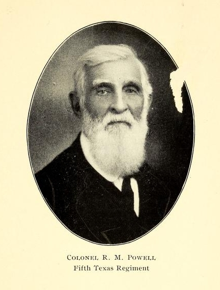 Col. Robert M. Powell, 5th Texas Infantry Regiment. From Hood's Texas brigade, its marches, its battles, its achievements by Polley, J. B. (1910)